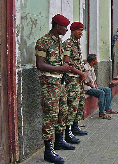 Military Police in Mindelo, Cape Verde. 2006.